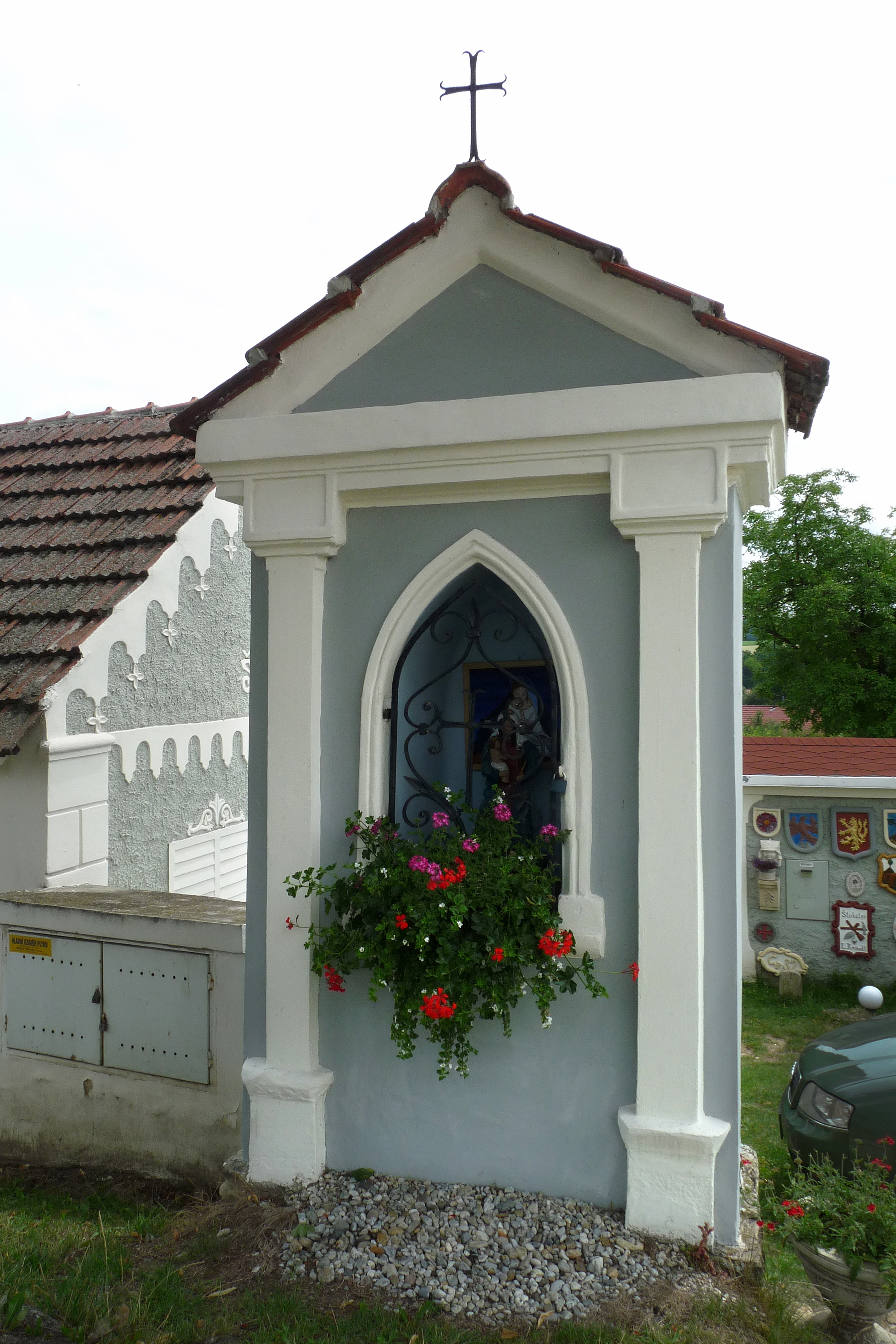 Wayside shrine in the village of Nedabyle, České Budějovice District, Czech Republic. Česky: Kaplička v obci Nedabyle, okres Českých Budějovice.